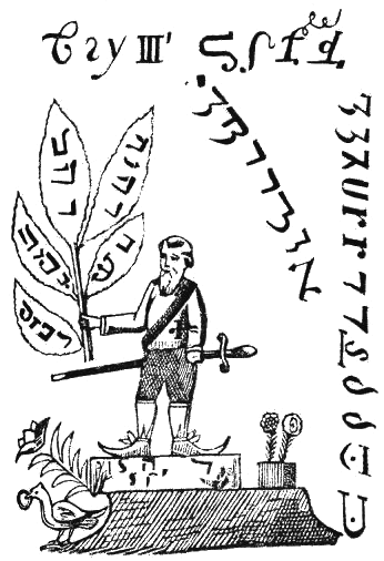 Figure 104. DIAGRAM ILLUSTRATING THE SYMBOLS EMPLOYED BY THE ISRAELITES IN THEIR LAWS OF MAGIC. Scan of plate 104 of the 1880 translation of the 1849 Johann Scheible (editor) version of The Sixth And Seventh Books Of Moses. No Author given. "The sixth and seventh books of Moses: or, Moses' magical spirit-art, known as the wonderful arts of the old wise Hebrews, taken from the Mosaic books of the Cabala and the Talmud, for the good of mankind. Translated from the German, word for word, according to old writings". s.n., New York 1880. translation of Das sechste und siebente Buch Mosis, das ist: Mosis magische Geisterkunst, das Geheimniss aller Geheimnisse. Sammt den verdeutschten Offenbarungen und Vorschriften wunderbarster Art der alten weisen Hebräer, aus den Mosaischen Büchern, der Kabbala und den Talmud zum leiblichen Wohl der Menschen. Wort- und bildgetreu nach alten Handschriften mit 42 Tafeln. (Liepzig, 1849). Online scans avalilable at: The Sixth and Seventh Books of Moses and "The sixth and seventh books of Moses: or, Moses' magical spirit-art, known as the wonderful arts of the old wise Hebrews, taken from the Mosaic books of the Cabala and the Talmud, for the good of mankind